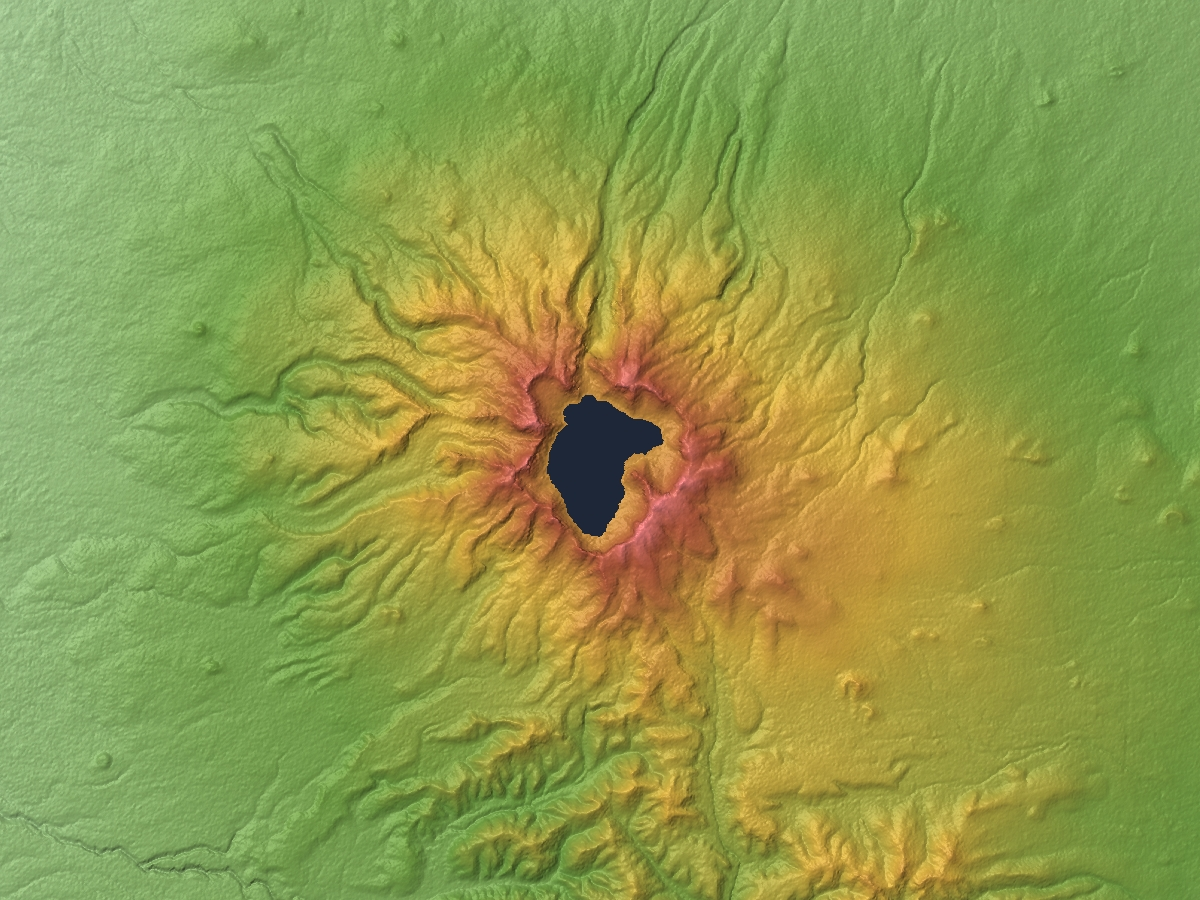 Mount Baekdu in the border between North Korea and Chaina.